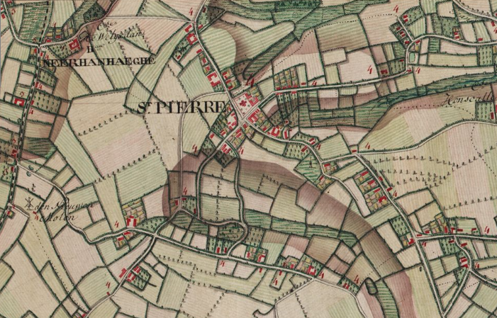 Saint-Pierre-Capelle (Sint-Pieters-Kappelle) on the "Map of Ferraris" (1771-78), merely named as "Saint Pierre", Bailliwick of Enghien, County of Hainaut